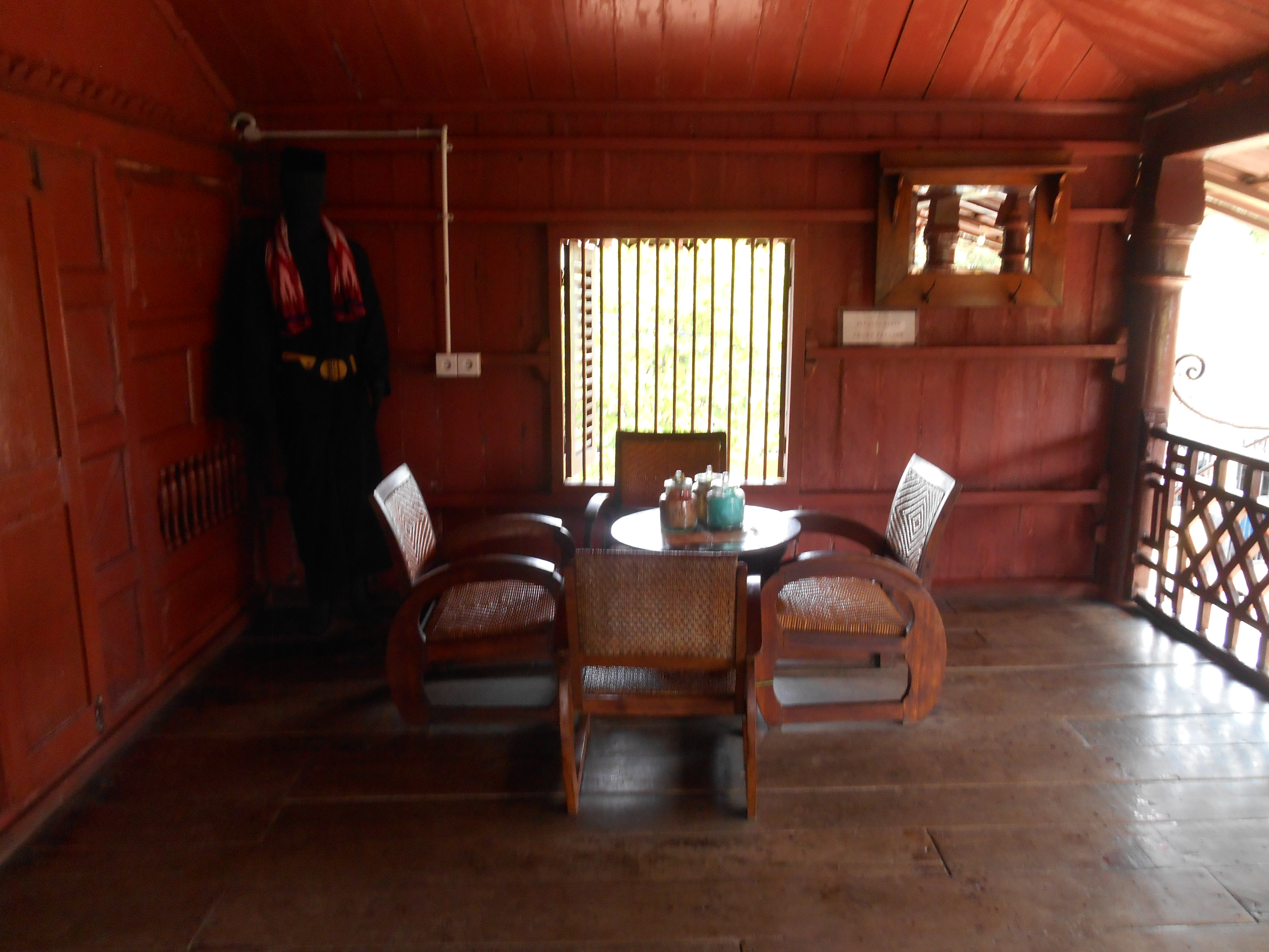 Teras Rumah Tinggi Marunda